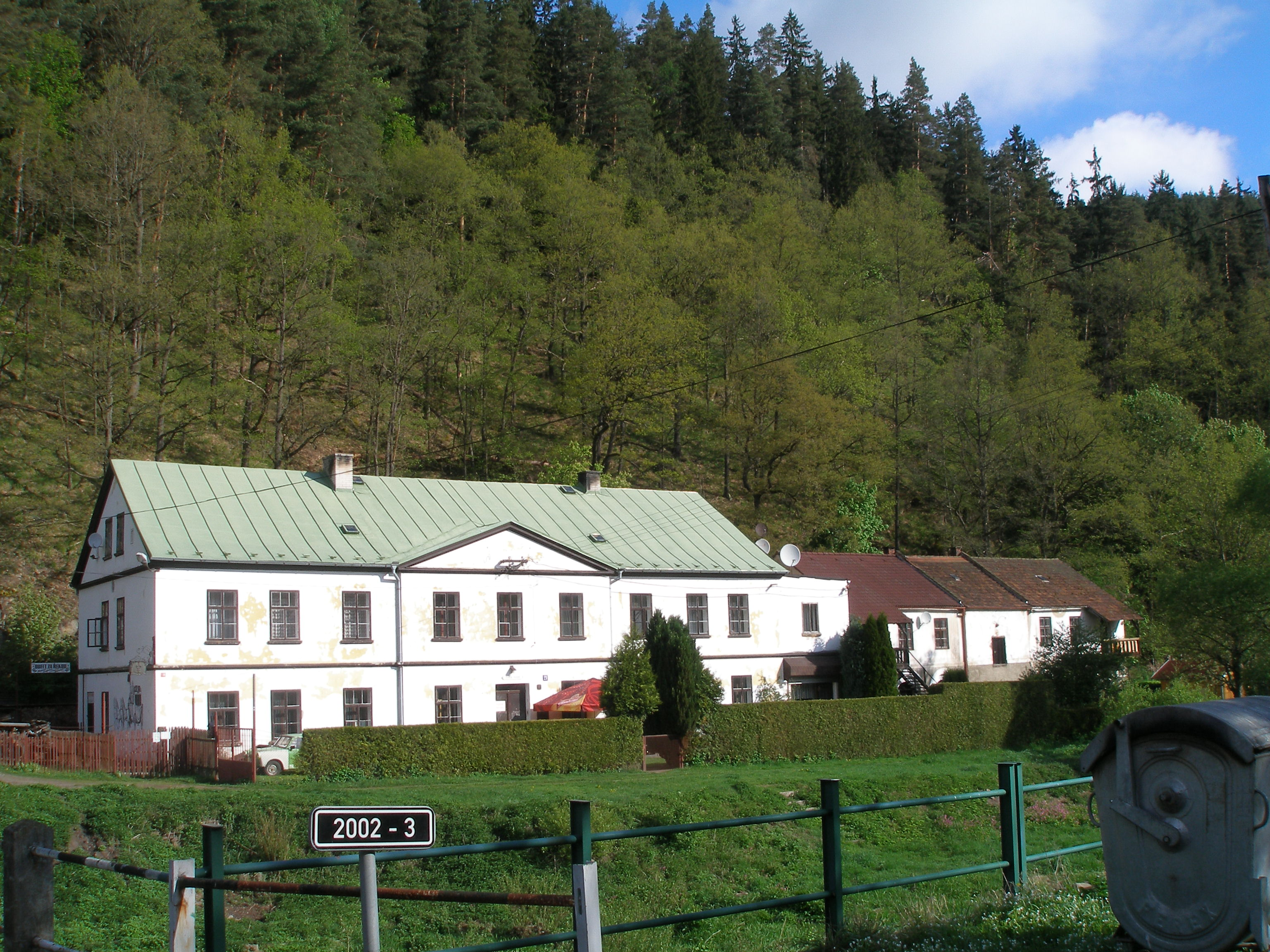 Josefova Huť - the pub "Za řekou" (Behind the River)